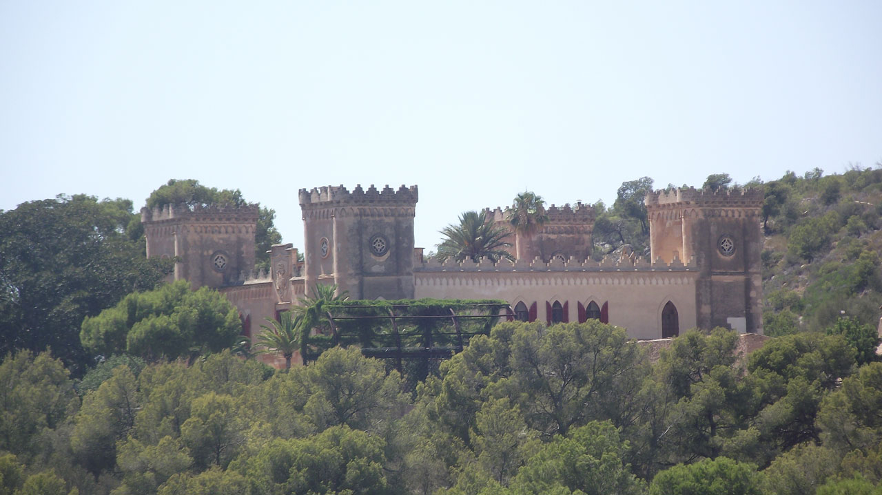 Castle of Bendinat in Calvia (Mallorca)